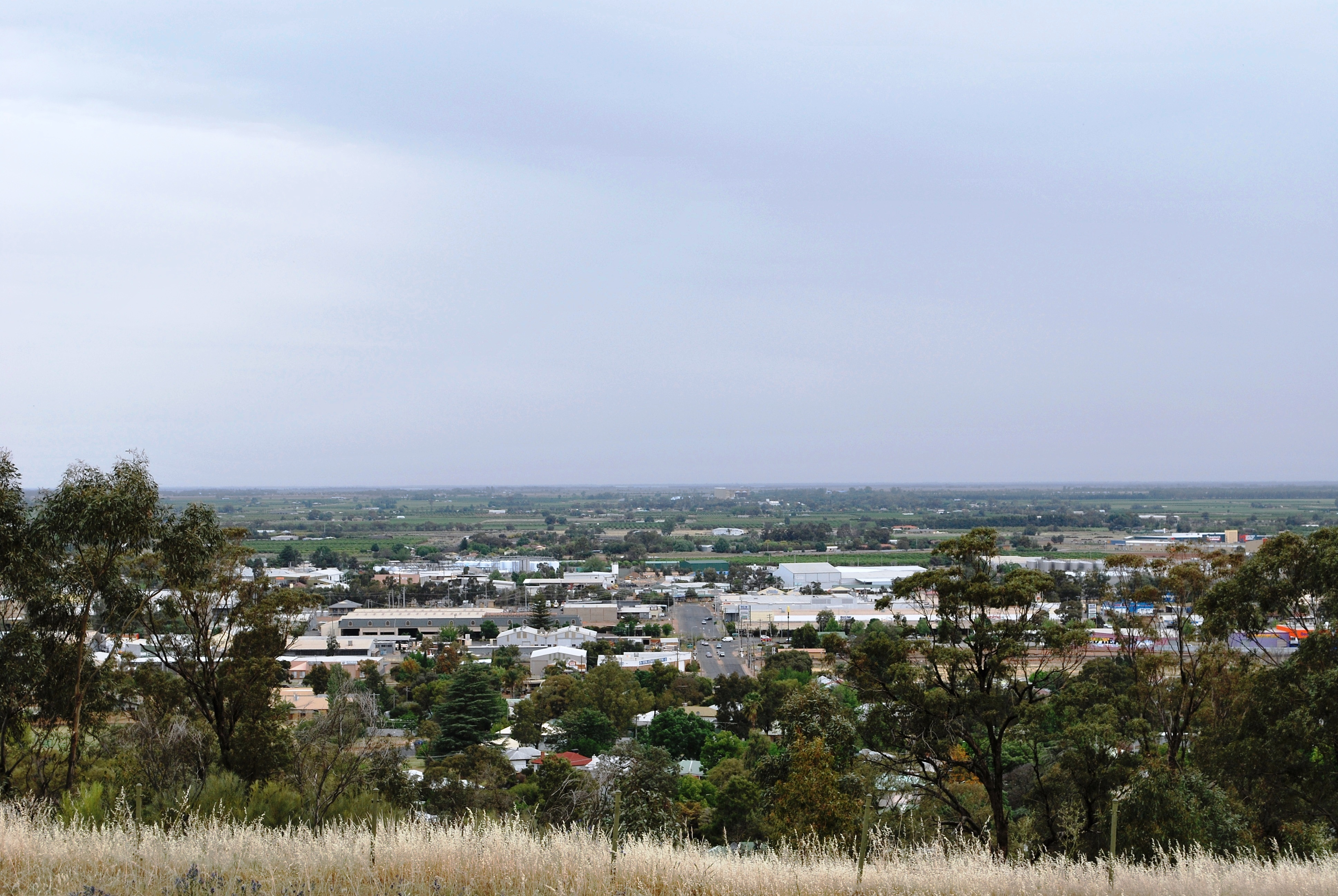 Griffith, New South Wales seen from Scenic Hill lookout